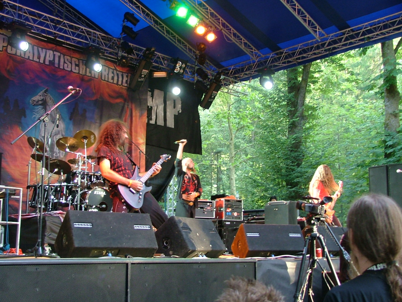 German metal band Die Apokalyptischen Reiter at the Metalcamp in Tolmin